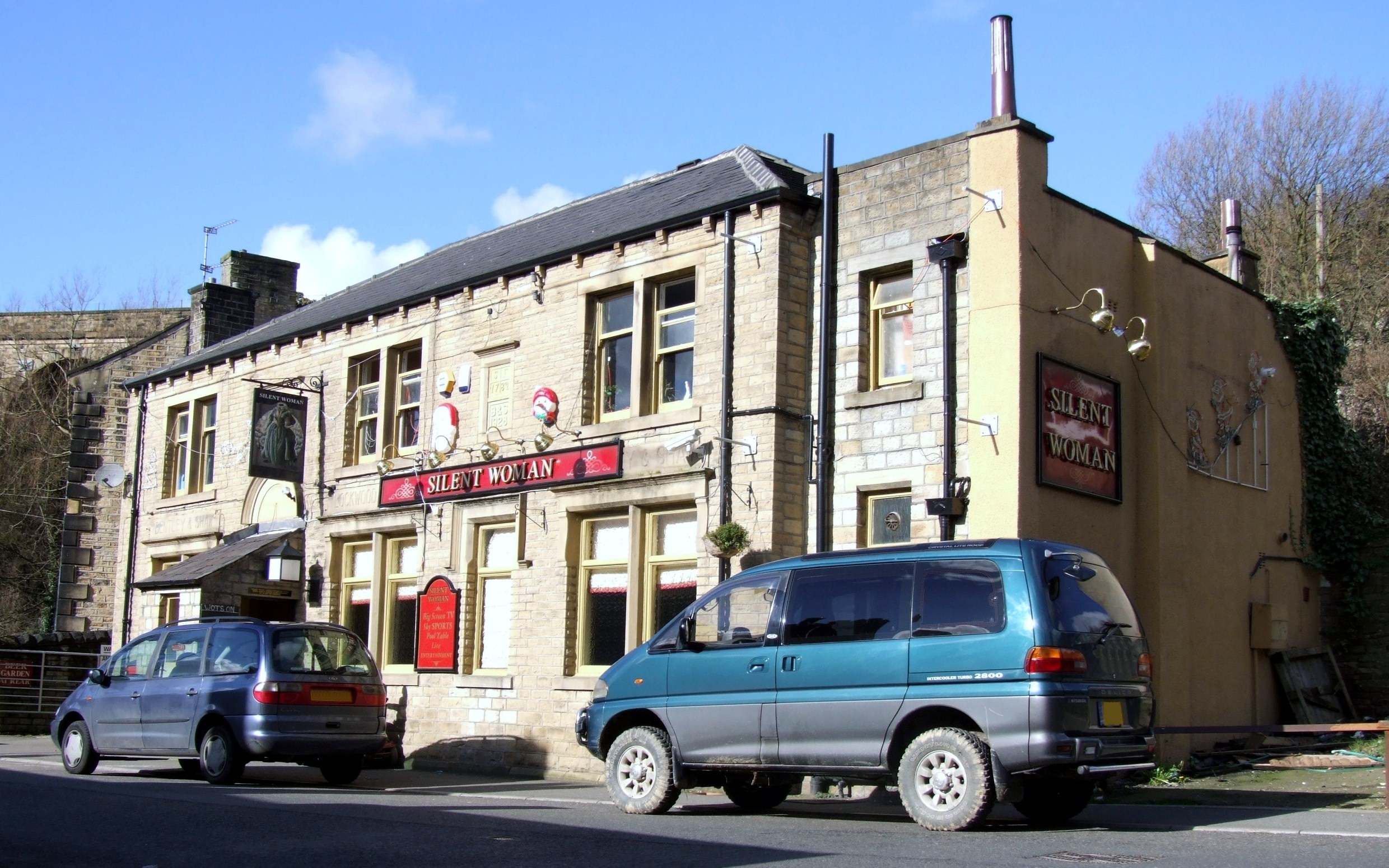 The Silent Woman Public House in Slaithwaite, West Yorkshire. The 'Silent Woman' pub came to the attention of the world media on 23 September 2007, when a man walked into the pub and ordered a pint of beer a few minutes after he had murdered his son and attacked his daughter with a knife.